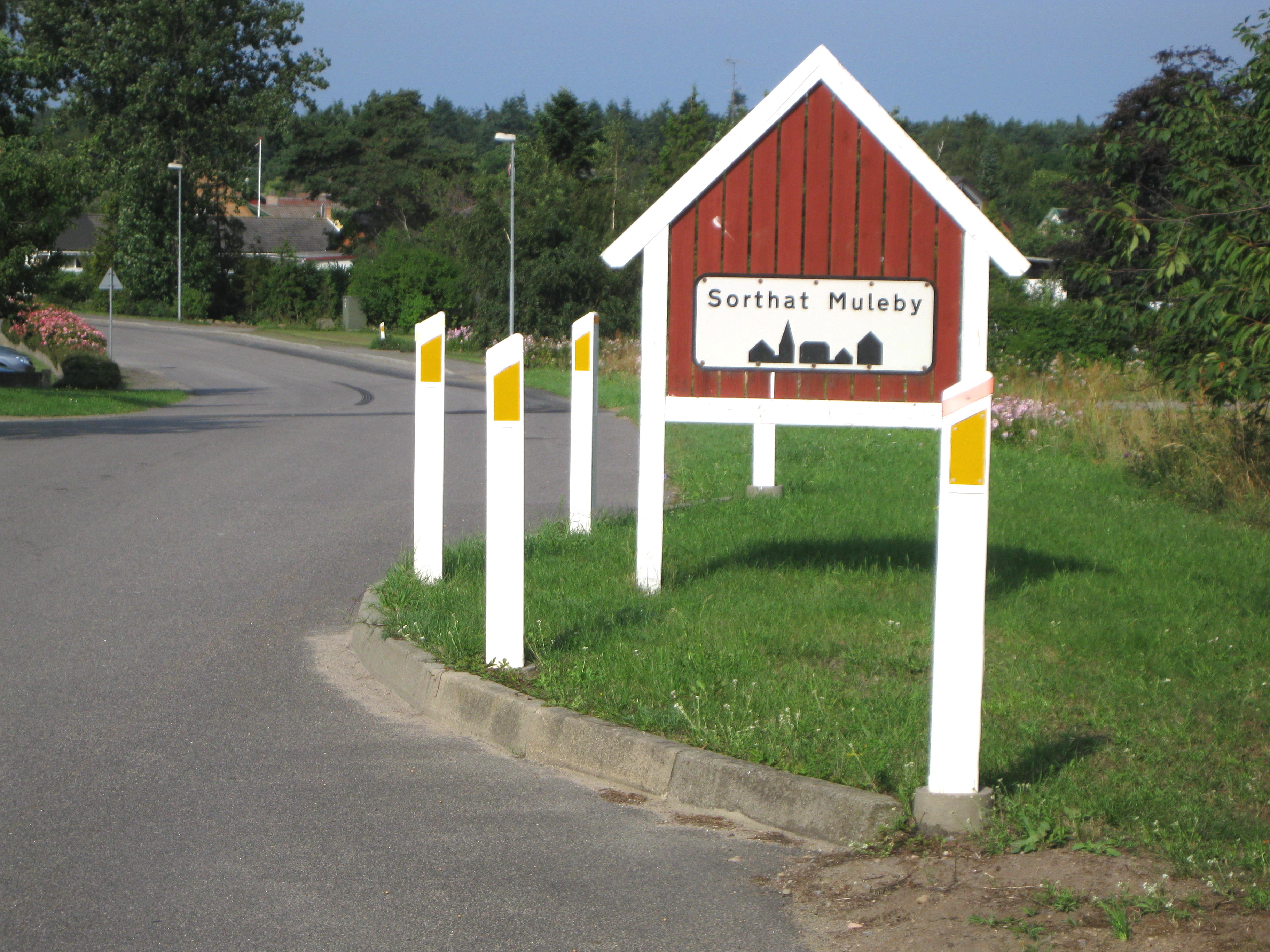 The village sign of "Sorthat-Muleby" on the island Bornholm, east Denmark.